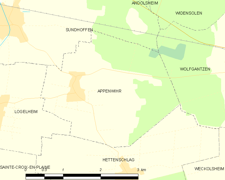 Map of French municipality